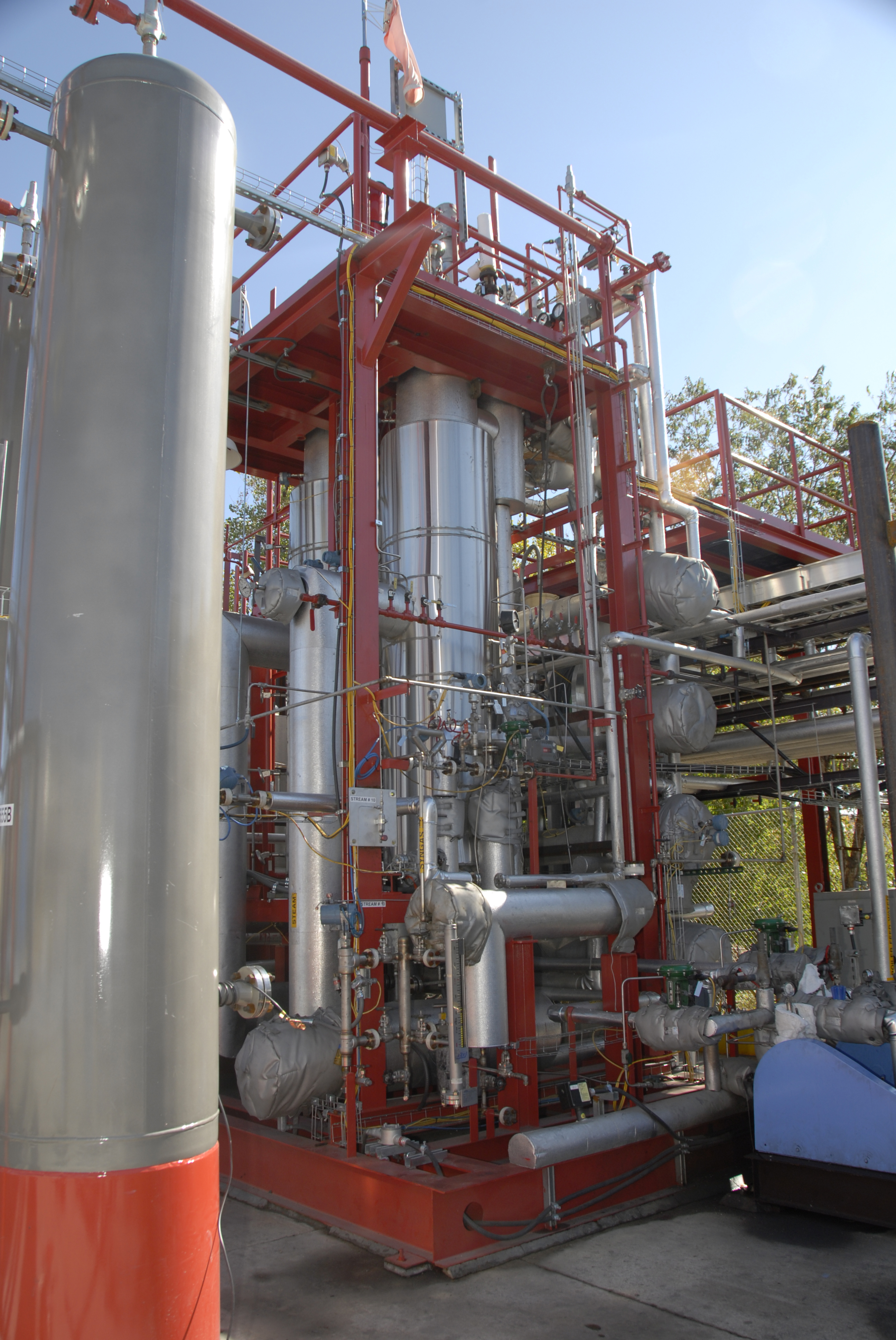 Wood chips are used as a source for cellulosic ethanol production at Range Fuels in Broomfield, Colorado on October 23, 2008. Cellulosic ethanol is a biofuel produced from wood, grasses, or the non-edible parts of plants. Wood chips and other cellulosic materials have several advantages in that they are abundant, they don't compete with food crops such as corn or soybean, and they result in far lower carbon-dioxide emissions. USDA photo by Alice Welch.